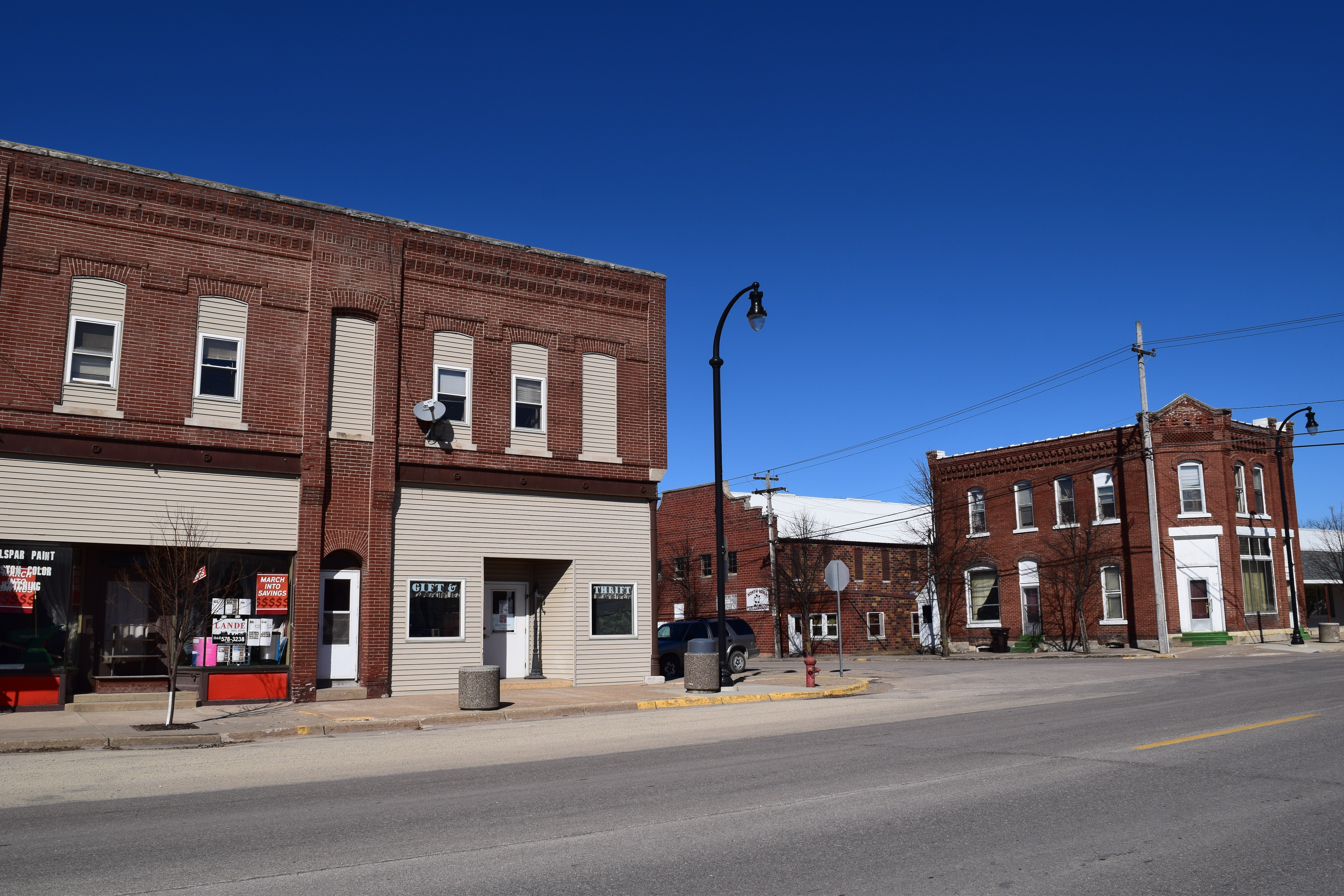 Businesses in downtown Fredericksburg, Iowa.